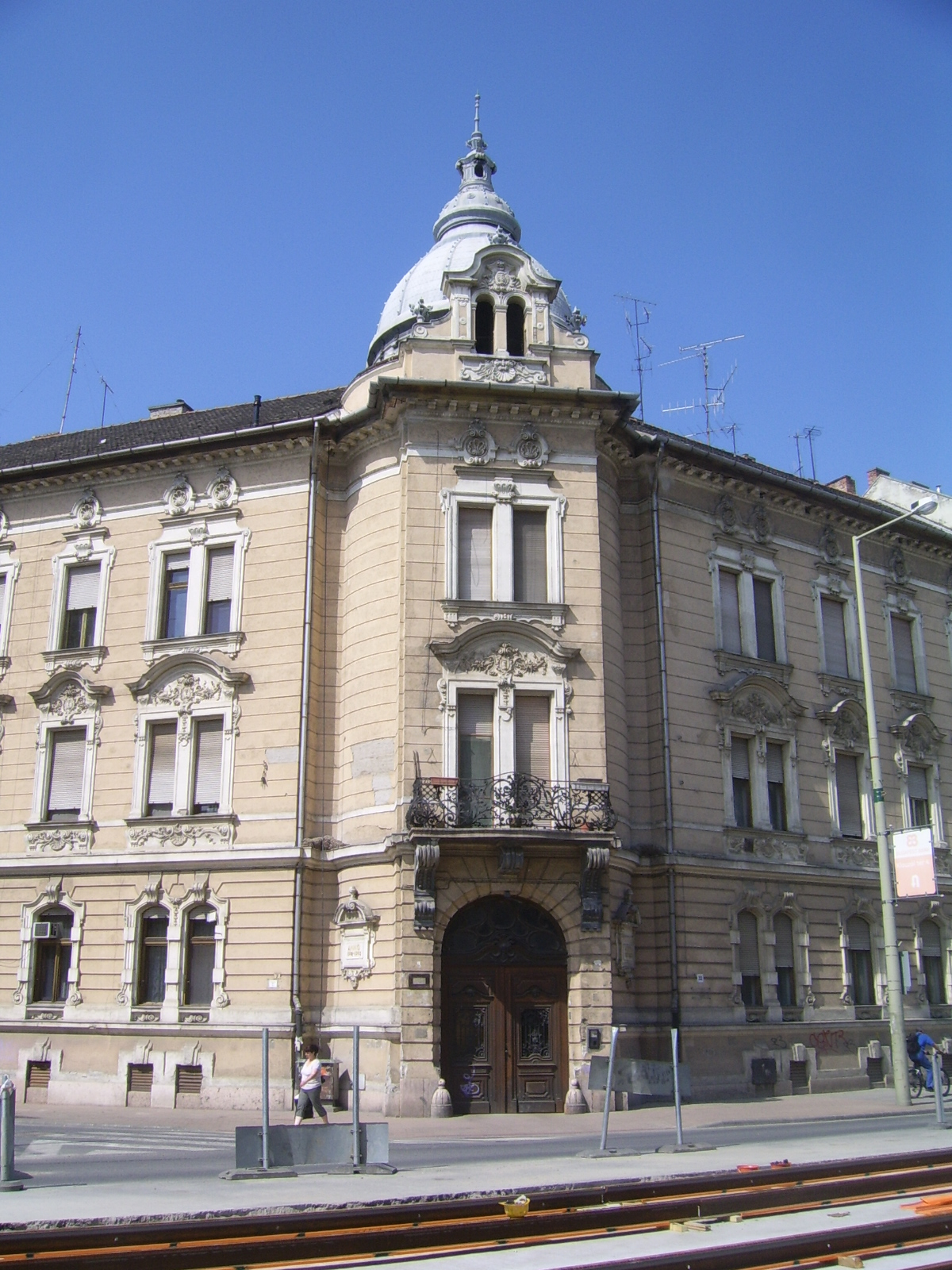 Facade of Tóth-palota in Szeged